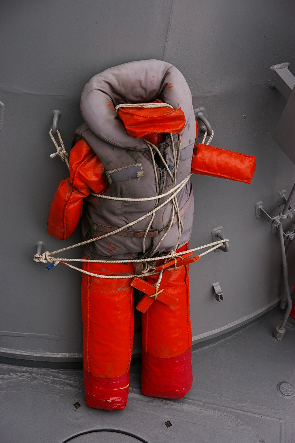 JMSDF DE-227 Yuubari, Life vest.